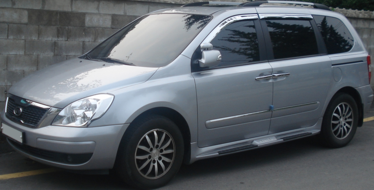 Kia New Carnival